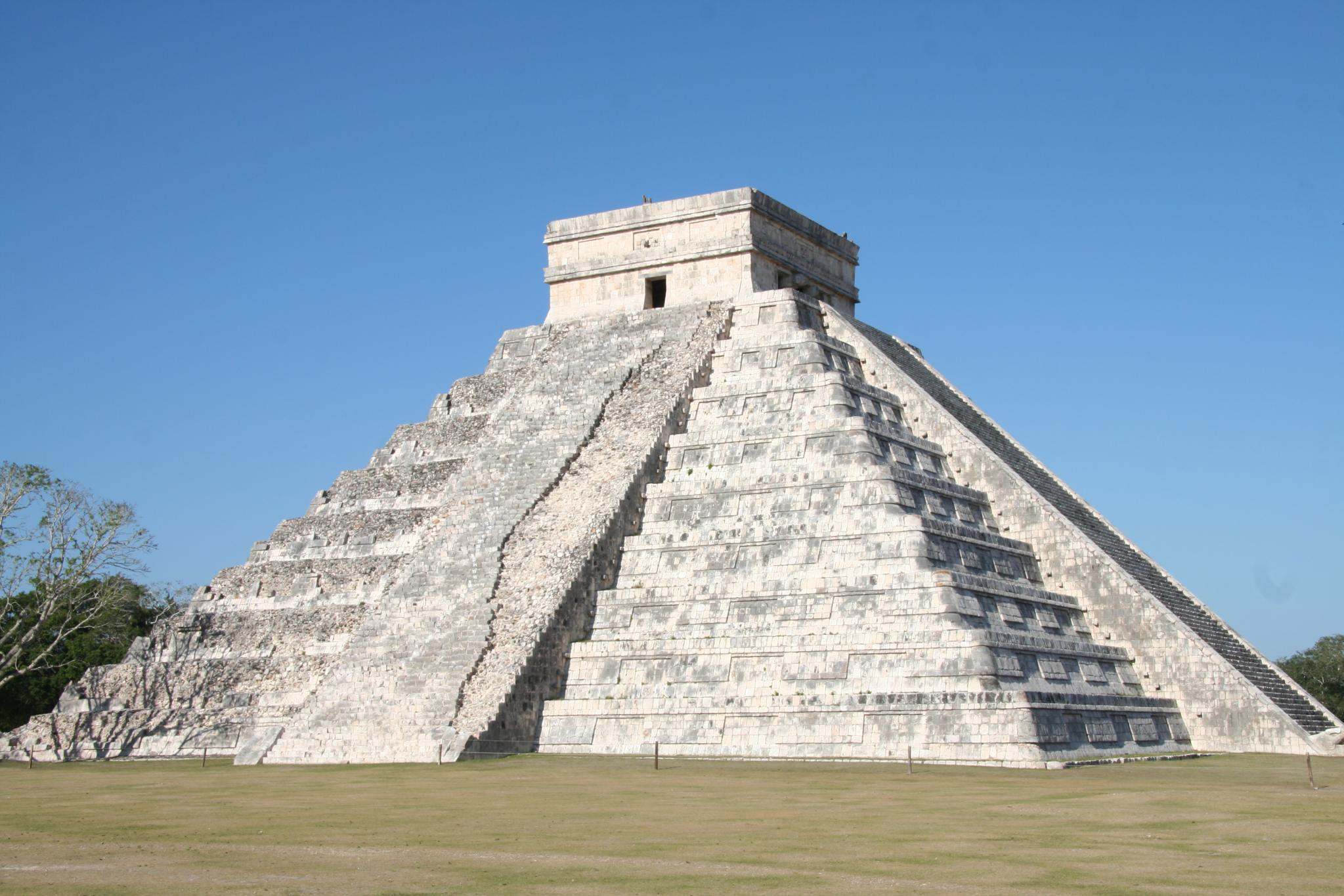 The famous Maya pyramid.